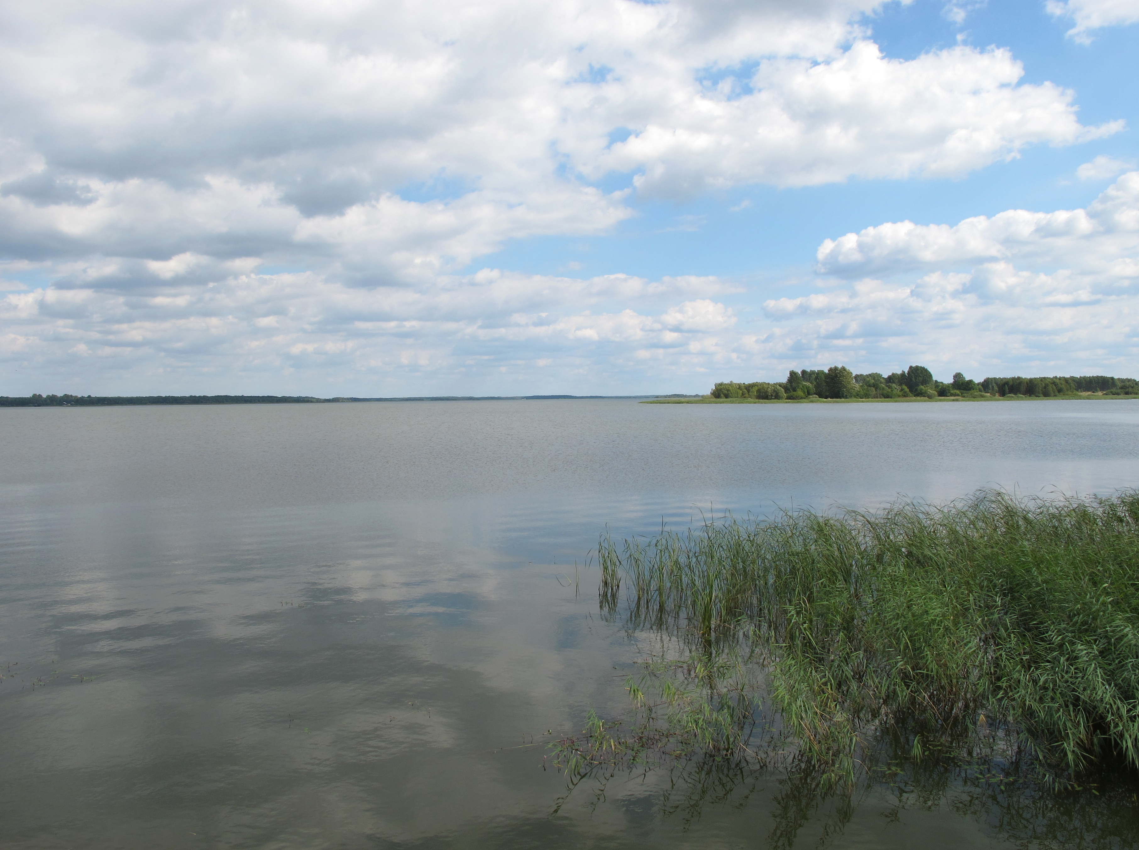 View from the road along Siemianówka reservoir near Bondary village, gmina Michałowo, podlaskie,Poland